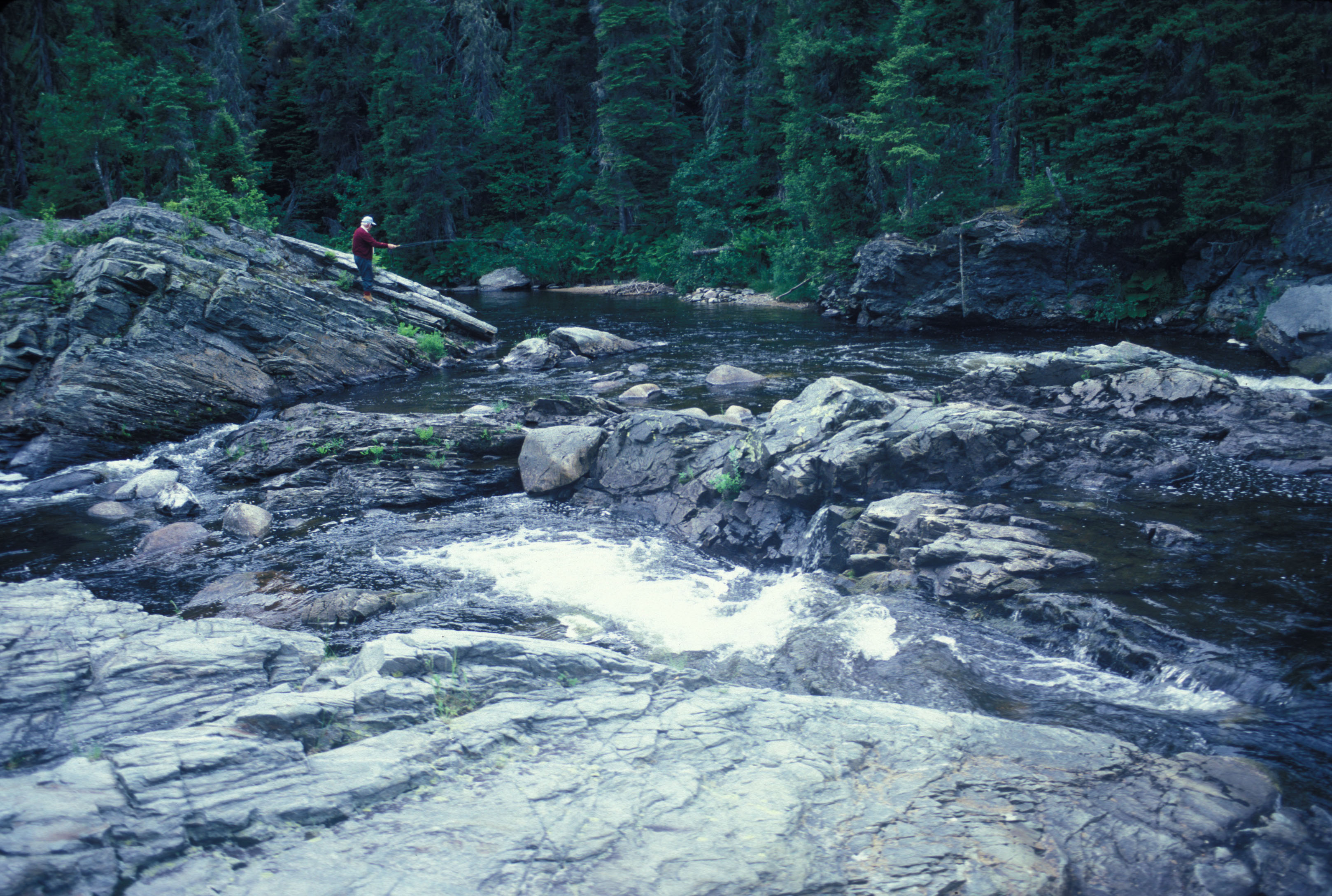 Lower North Branch Little Southwest Miramichi River, a tributary to the Little Southwest Miramichi River, in north-central New Brunswick, Canada (IR Walker 1986).